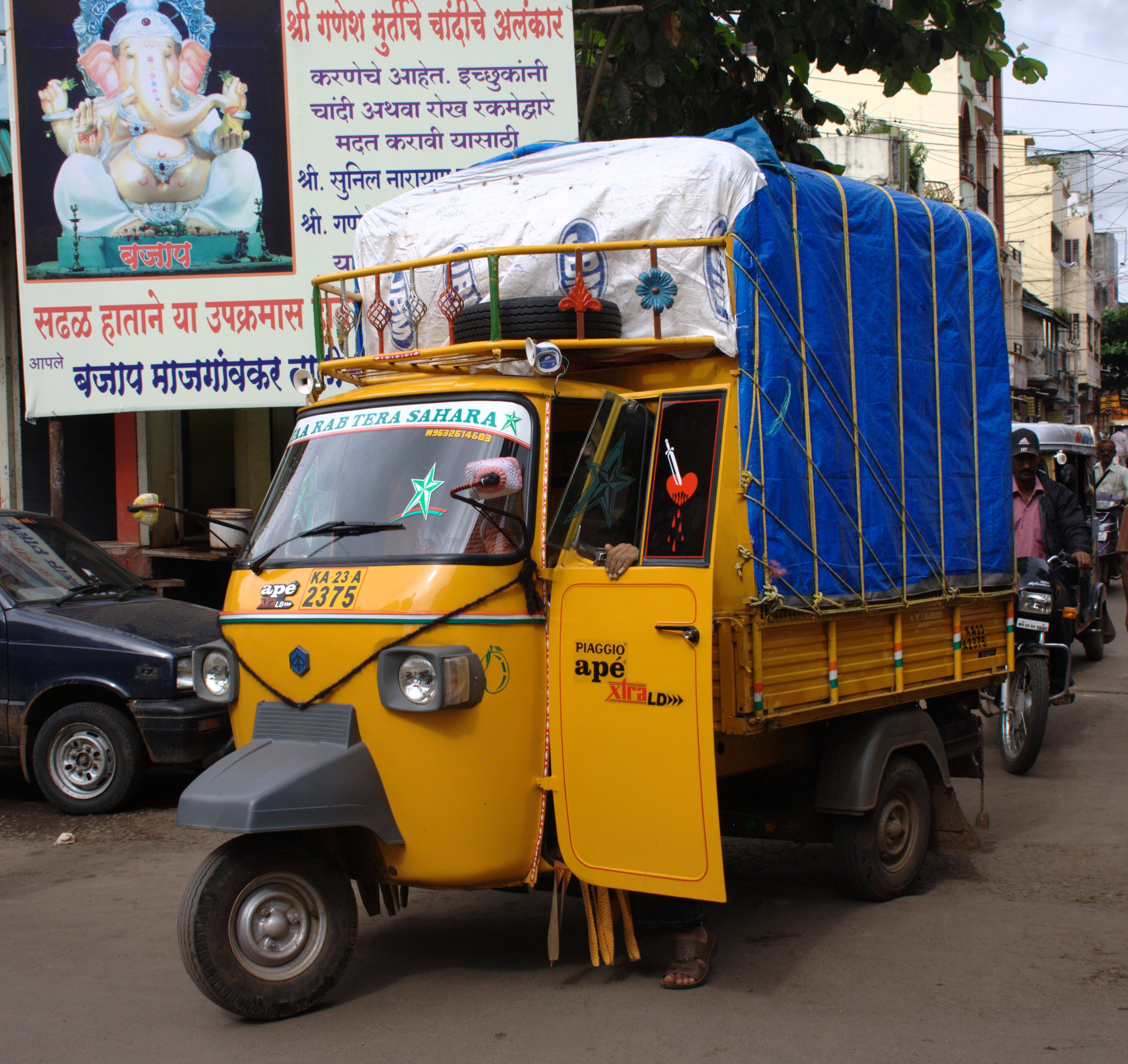 A Piaggio Ape in Kolhapur, Maharashtra, India.